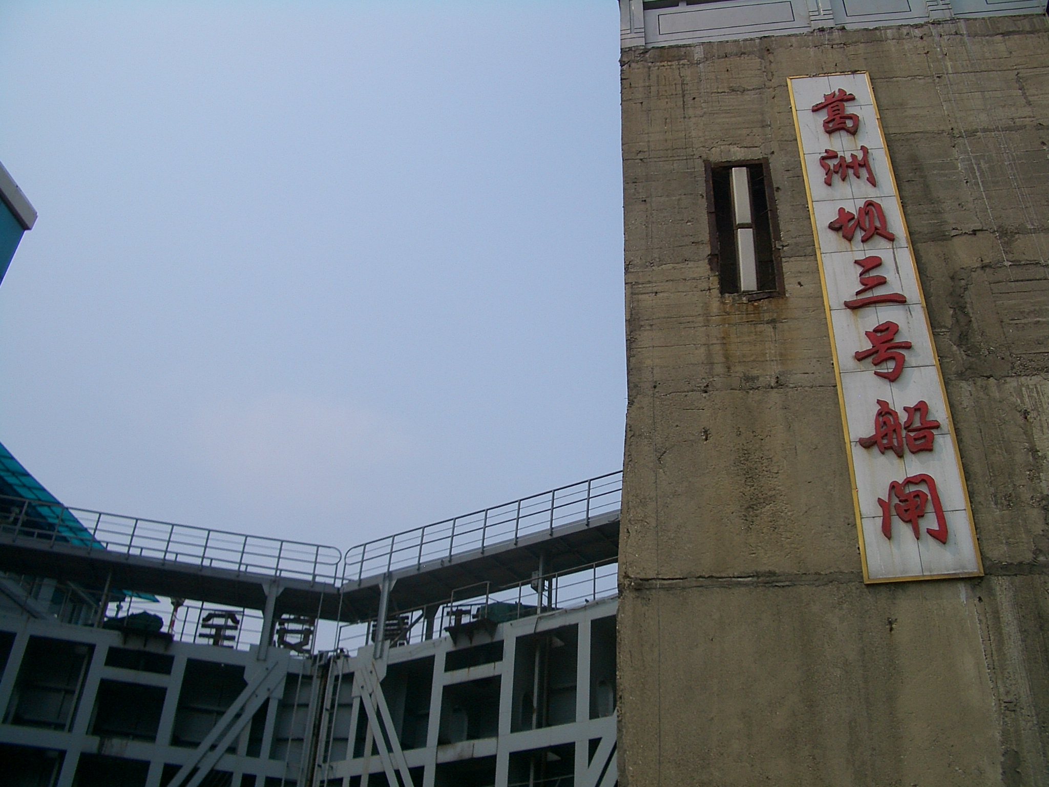 The downstream gate of one of the locks at Gezhouba Dam, seen from the outside of the lock, from the small park downstream